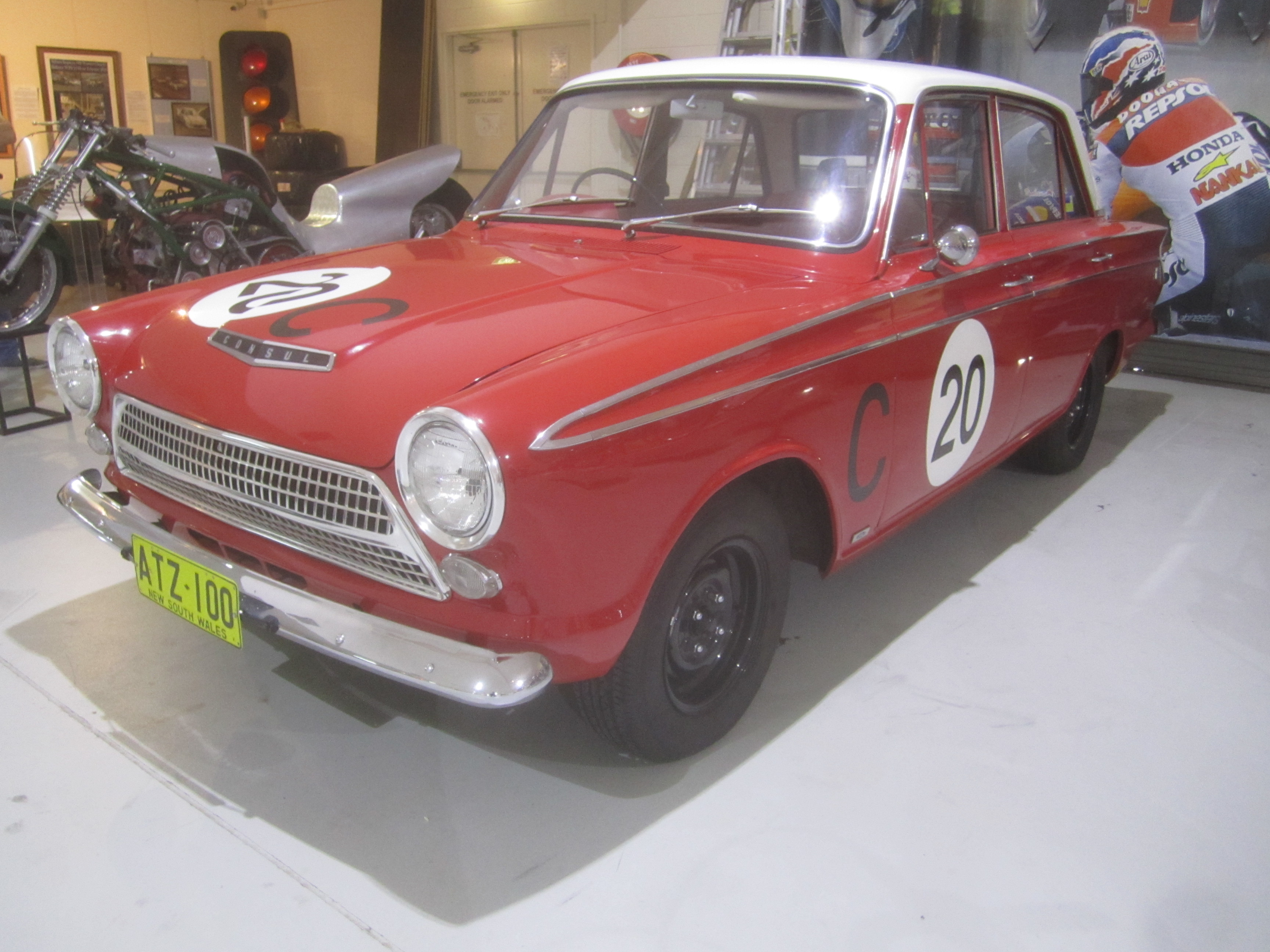 The English designed and built Mk I Cortina was also built in Australia, making it eligible to race in the Armstrong 500. Harry Firth and Bob Jane drove this Cortina GT in the Armstrong 500 at Mount Panarama, Bathurst in 1963 (the 1st year held there, held at Phillip Island previous years) They won the race! 2nd was a EH Holden and 3rd another GT Cortina.